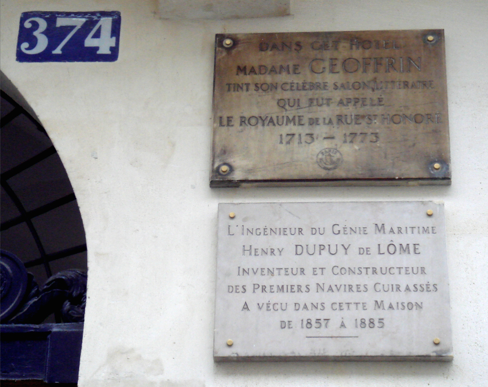 Plaque in memory of the salon de madame Geoffrin and house of Dupuy de Lôme : 374 rue Saint-Honoré, Paris 1st arr.